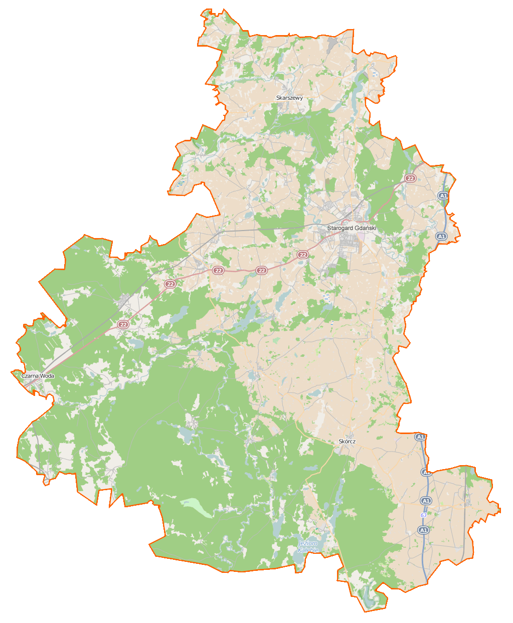 Map of Powiat starogardzki, Poland This map of Powiat starogardzki was created from OpenStreetMap project data, collected by the community. This map may be incomplete, and may contain errors. Don't rely solely on it for navigation.